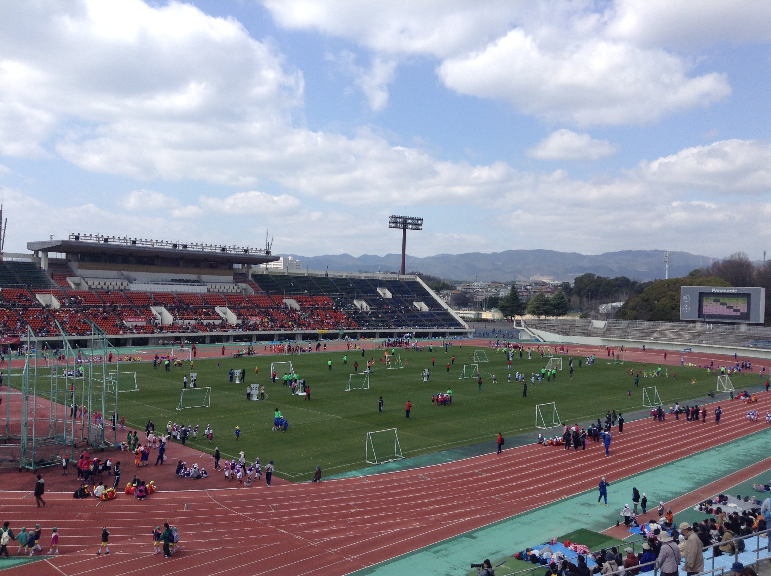 Expo '70 Commemorative Stadium